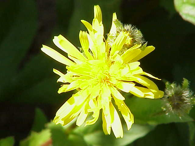 Species: Crepis blattarioides Family: Compositae Image No. 1